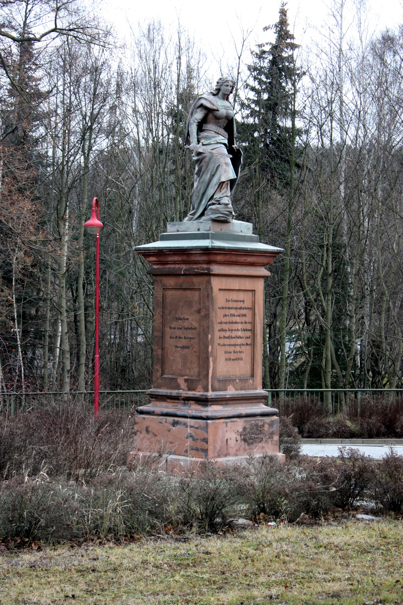 Leimbach (Mansfeld), the Germania statue This is a photograph of an architectural monument. 65915